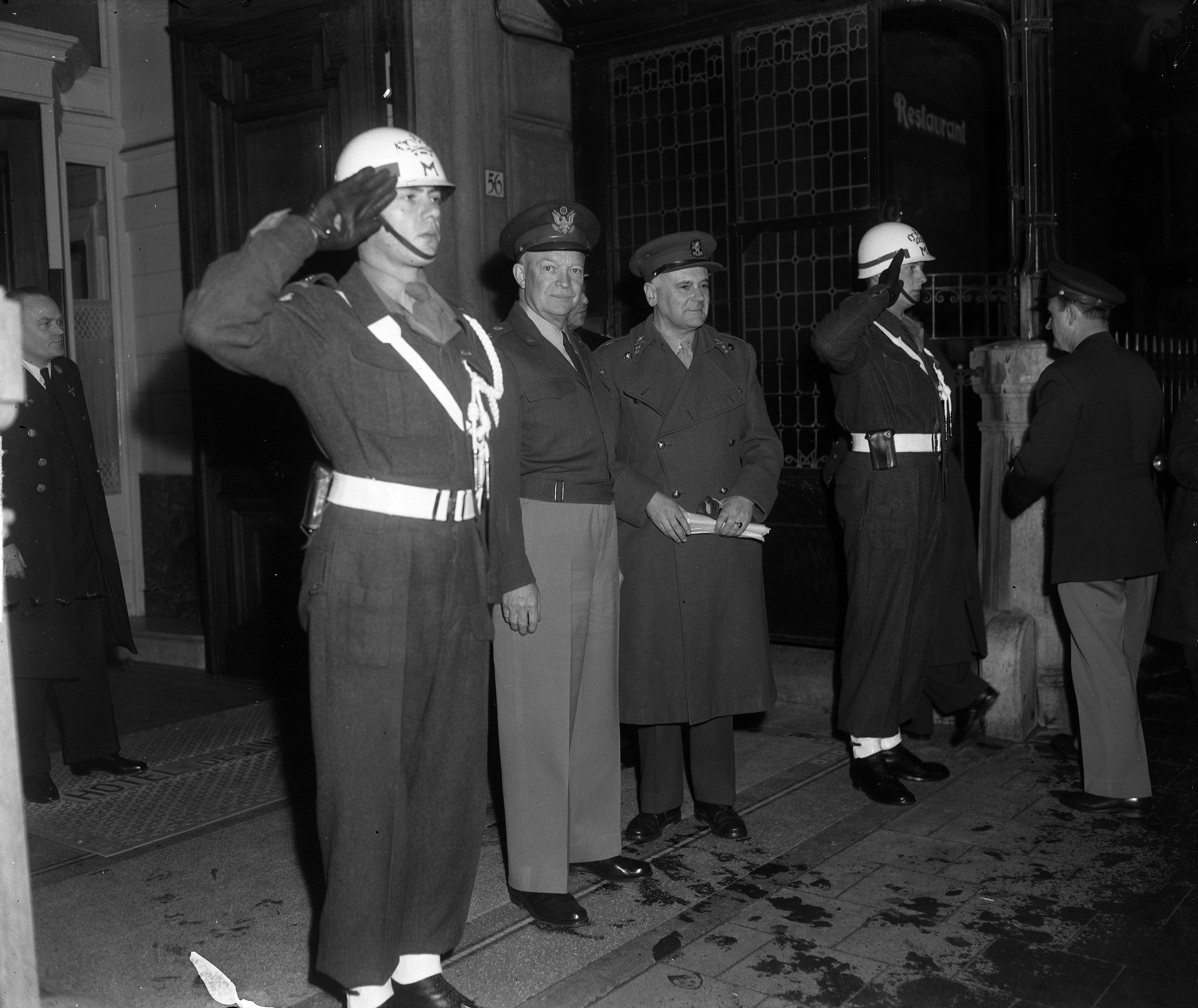 General D.D. Eisenhower and general H.J. Kruls at Hotel Des Indes, The Hague